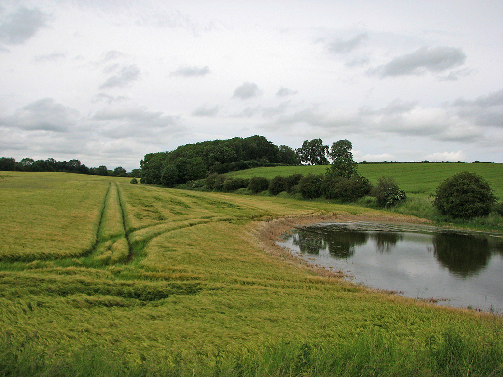 Slipton: former ironstone quarry and railway